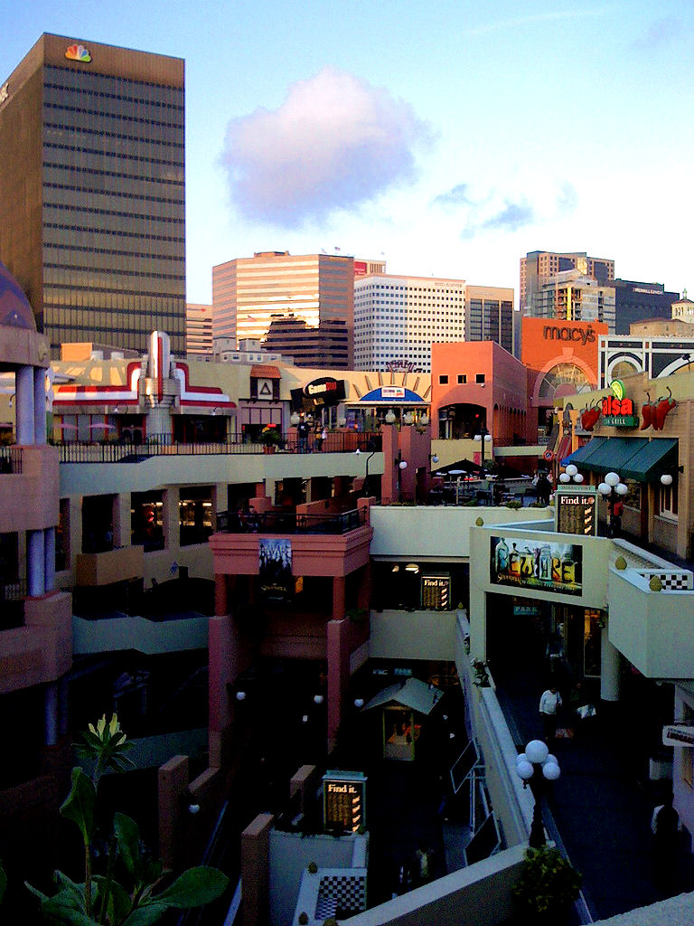 Westfield Horton Plaza, in San Diego